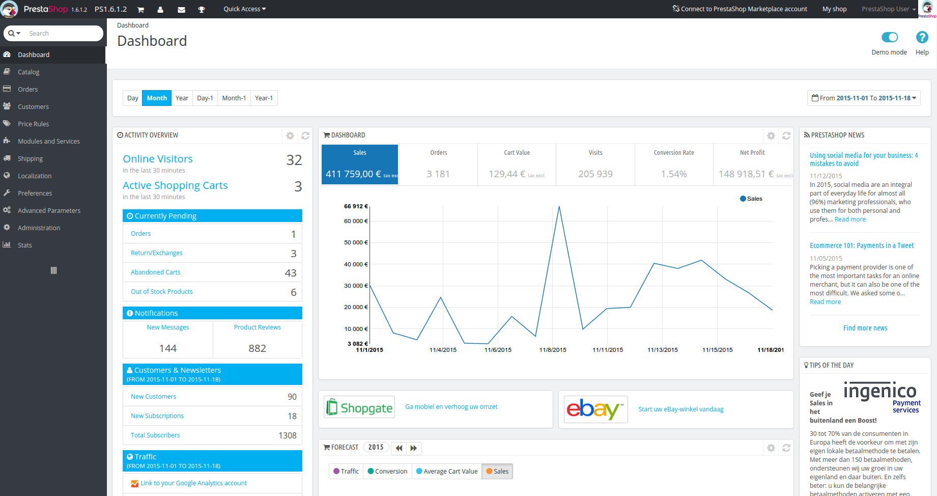 PrestaShop's Dashboard